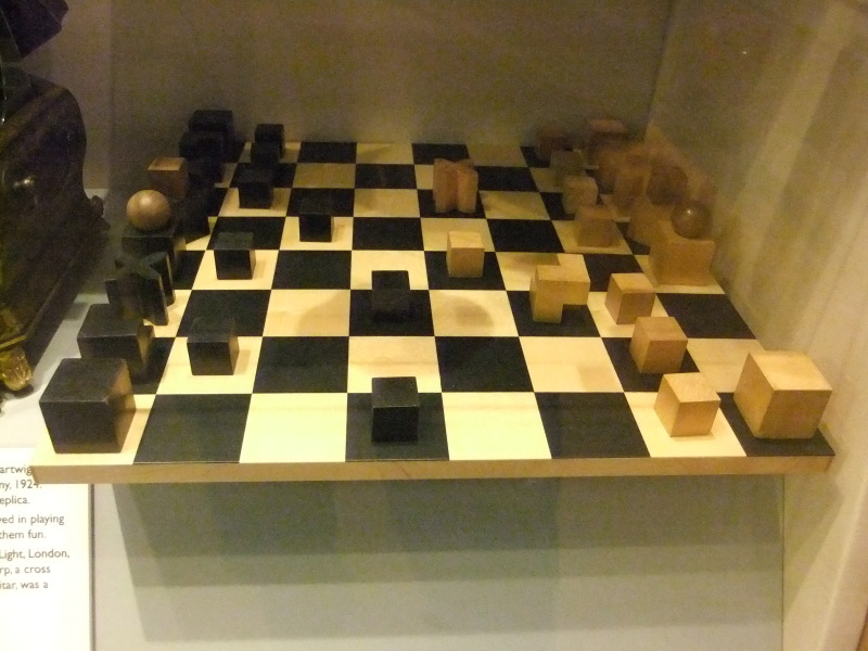 Beech chess set, Walker Art Gallery, Liverpool, England. Modern replica of 1924 original made by Josef Hartwig of the Bauhaus, Weimar, Germany.